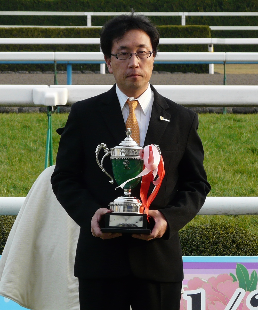 Ryuji-Okubo20110122